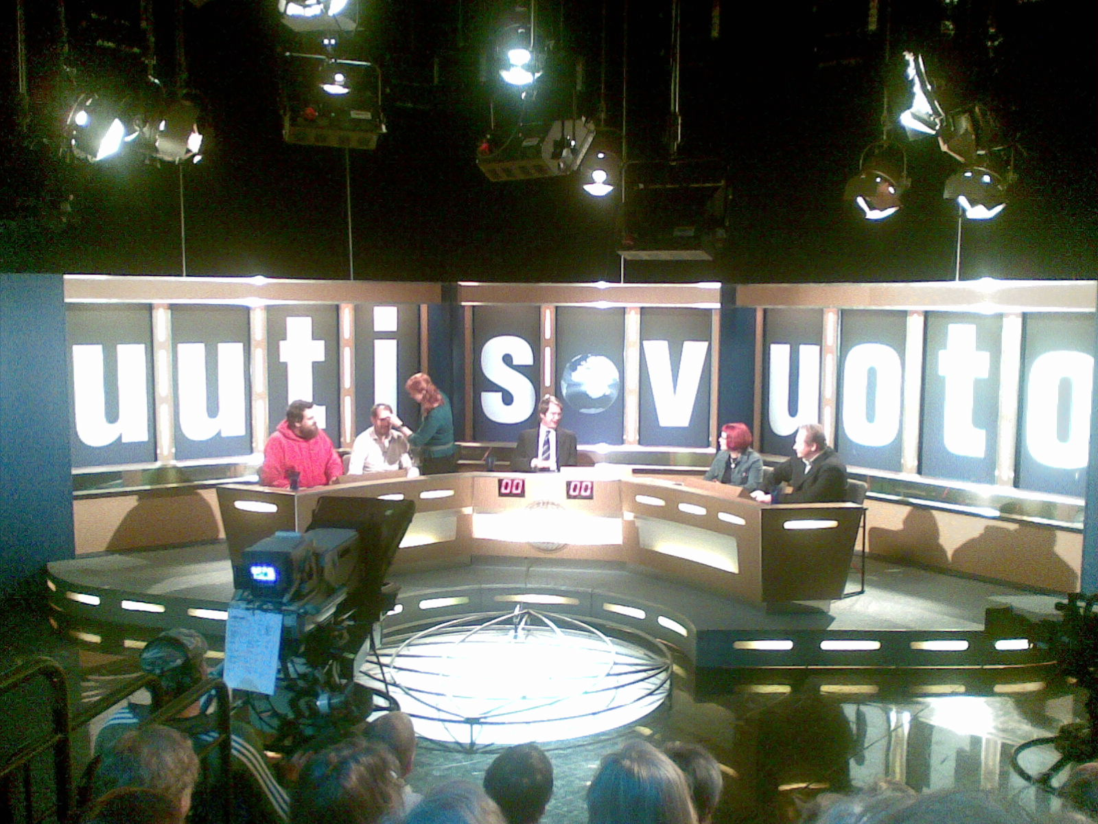 Popular "Uutisvuoto" TV show was taped before live studio audience